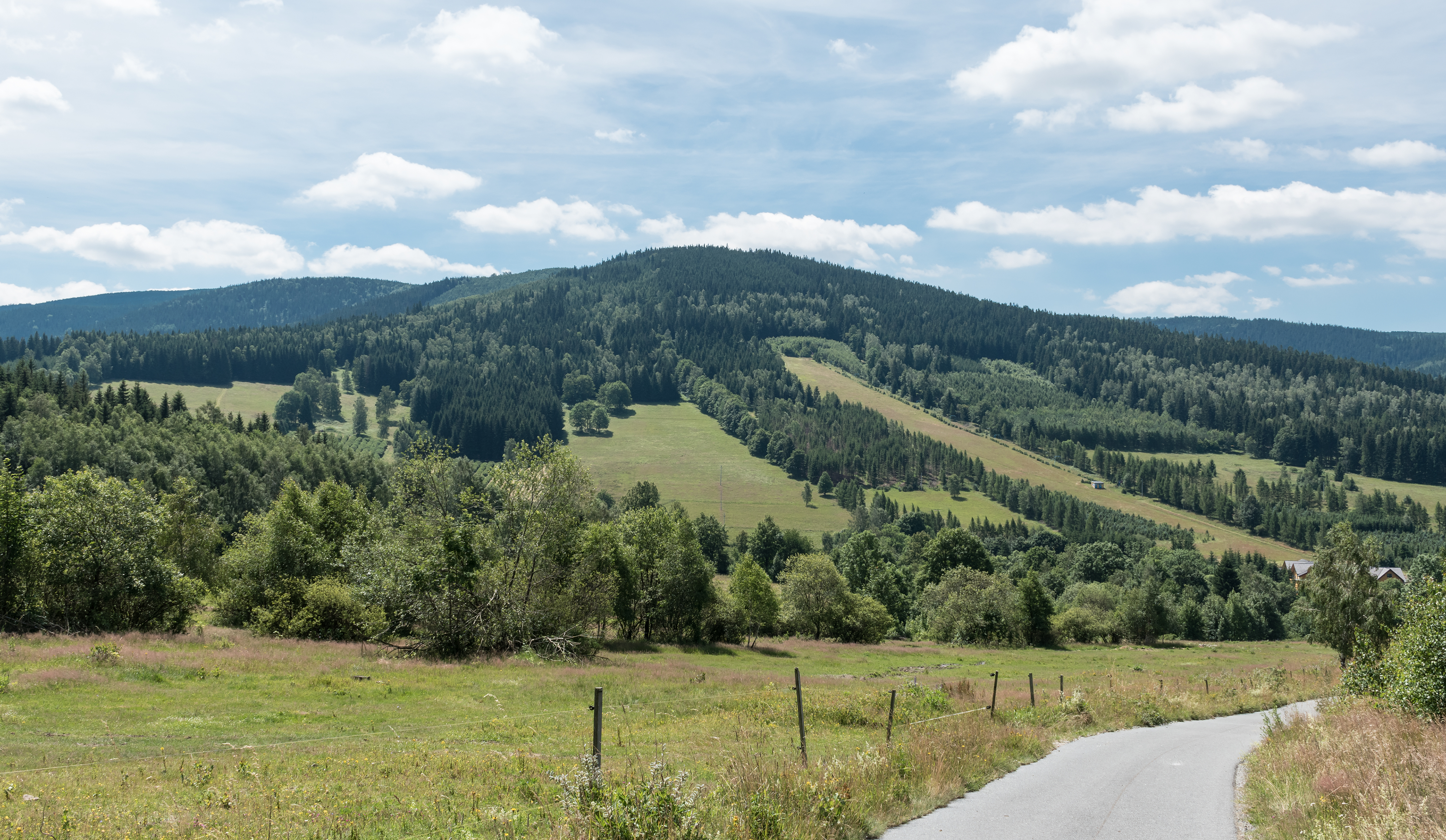 Gierałtowska Kopa, Bialskie Mountains, Sudetes